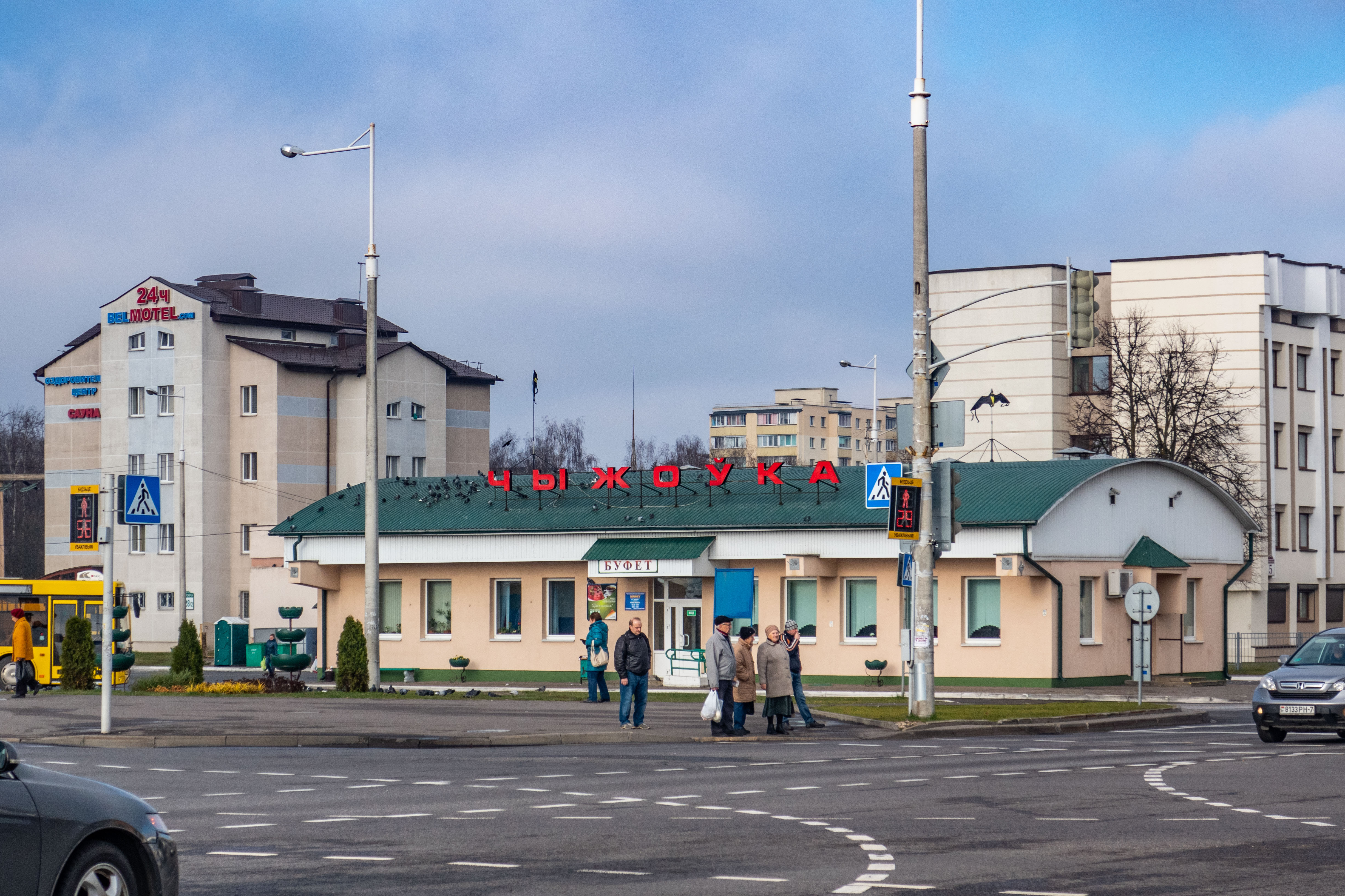 Čyžoŭka bus station. Minsk, Belarus